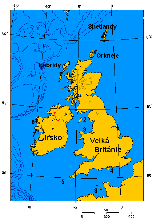 Map of British Isles with Czech description. Vytvořeno s pouitím